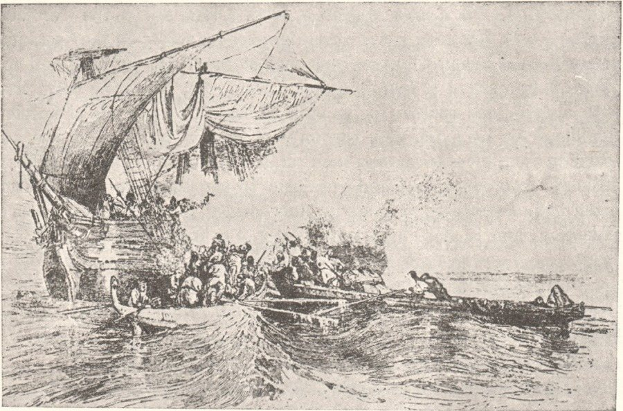 A drawing by I. K. Vasdravellis (1796-1832) of Greek pirate boats attacking a merchantmen. from page 17 of the 1950 book Thessalonica.